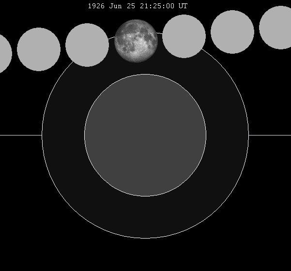 =lunar eclipse chart of moon's path through the earth's shadow. thumb